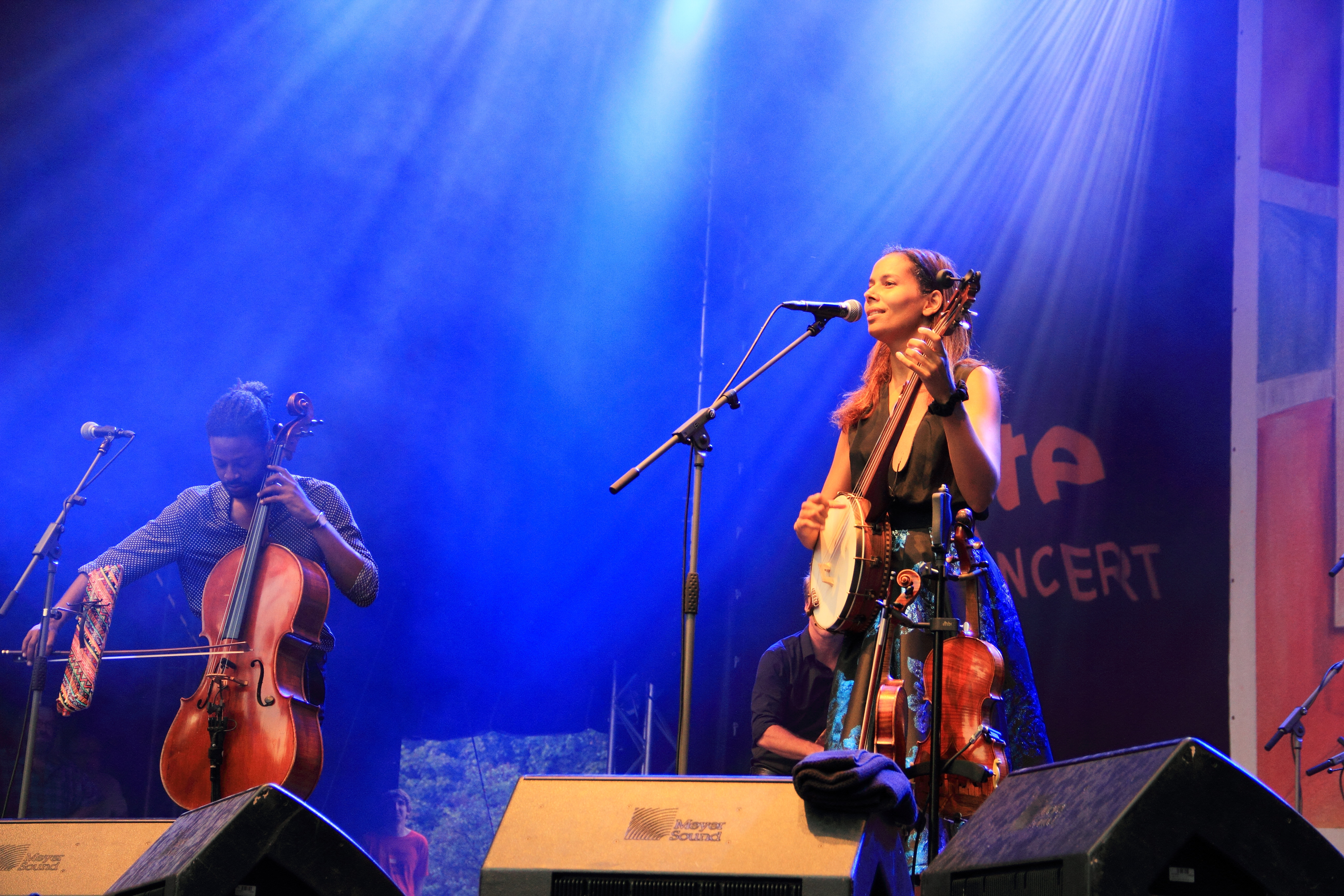 Rhiannon Giddens from North Carolina with band at TFF Rudolstadt 2015.